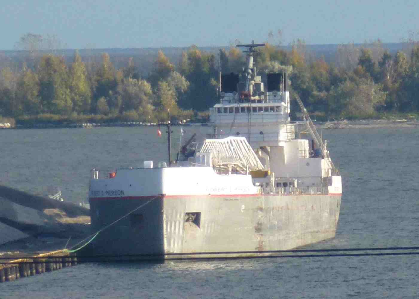 Lake freighter Robert S. Pierson, moored in Toronto, 2013 10 23 -b